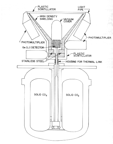 Radsat space observatory's gamma ray spectrometer diagram.